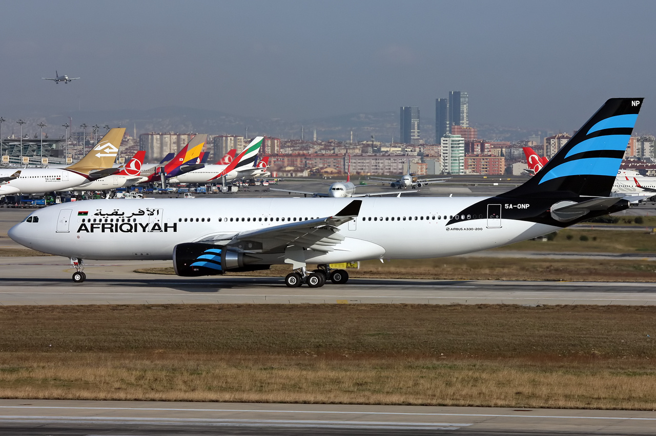 Afriqiyah Airways Airbus A330-202 at Istanbul